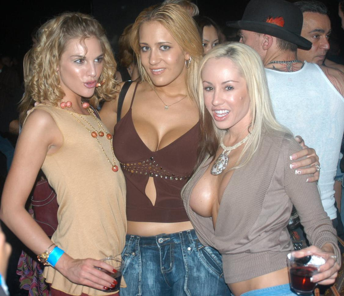 Brianna Love, Trina Michaels, Davia Ardell at West Coast Productions Party.